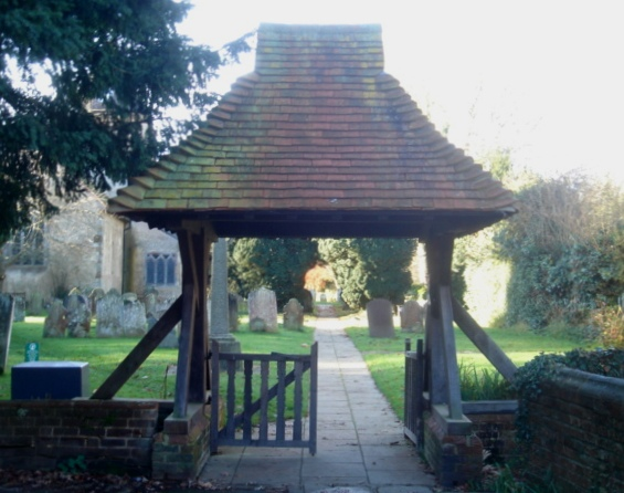 The lychgate at the entrance to the churchyard at St Margaret's Church, Ifield, Crawley, England.